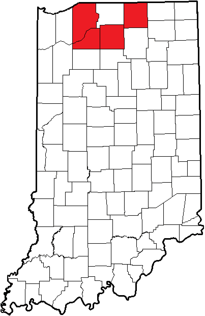 Northlands Conference within Indiana